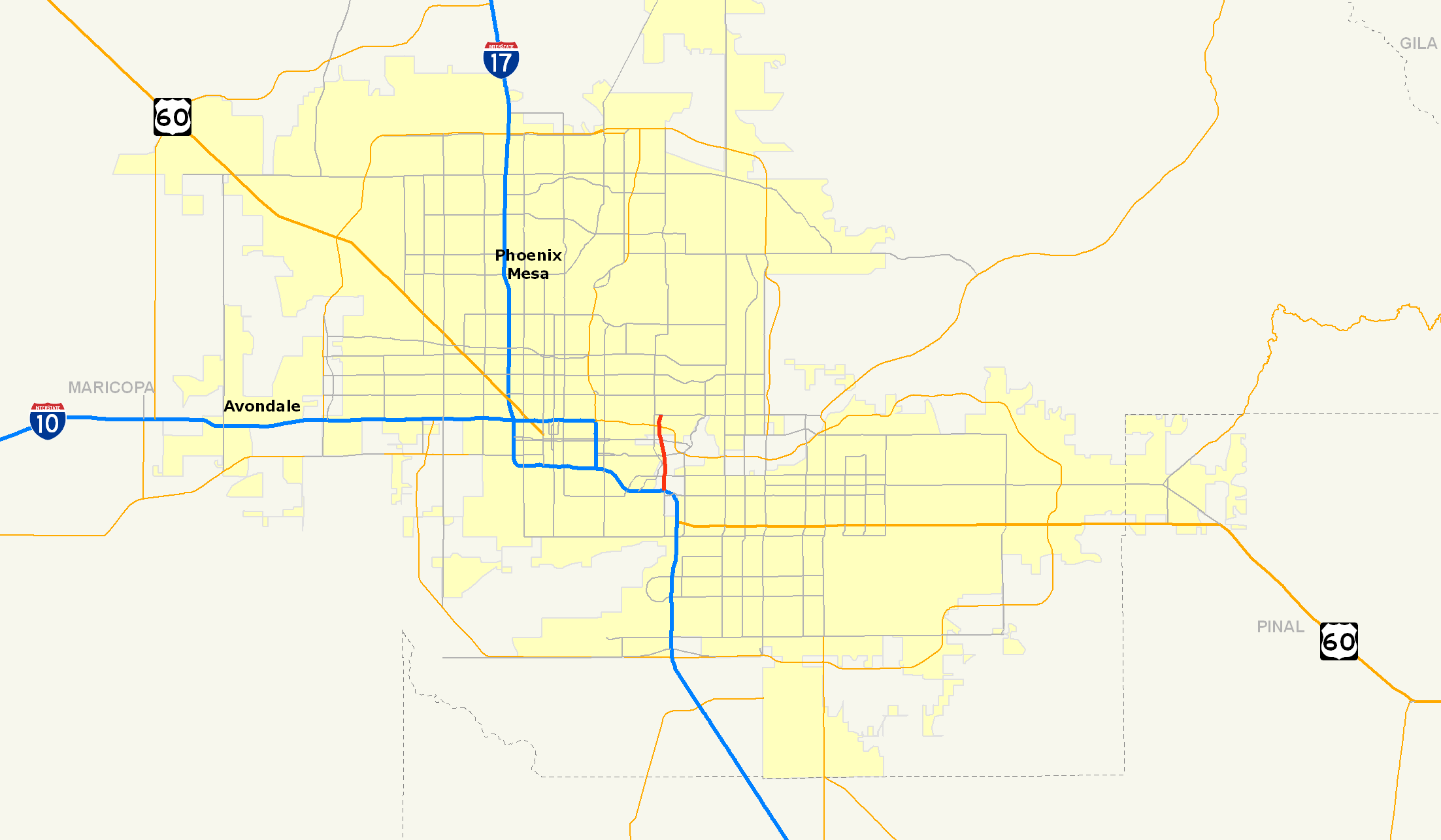 Map of Arizona State Route 143